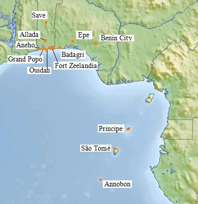 Former Possessions of the WIC at the Slave coast.